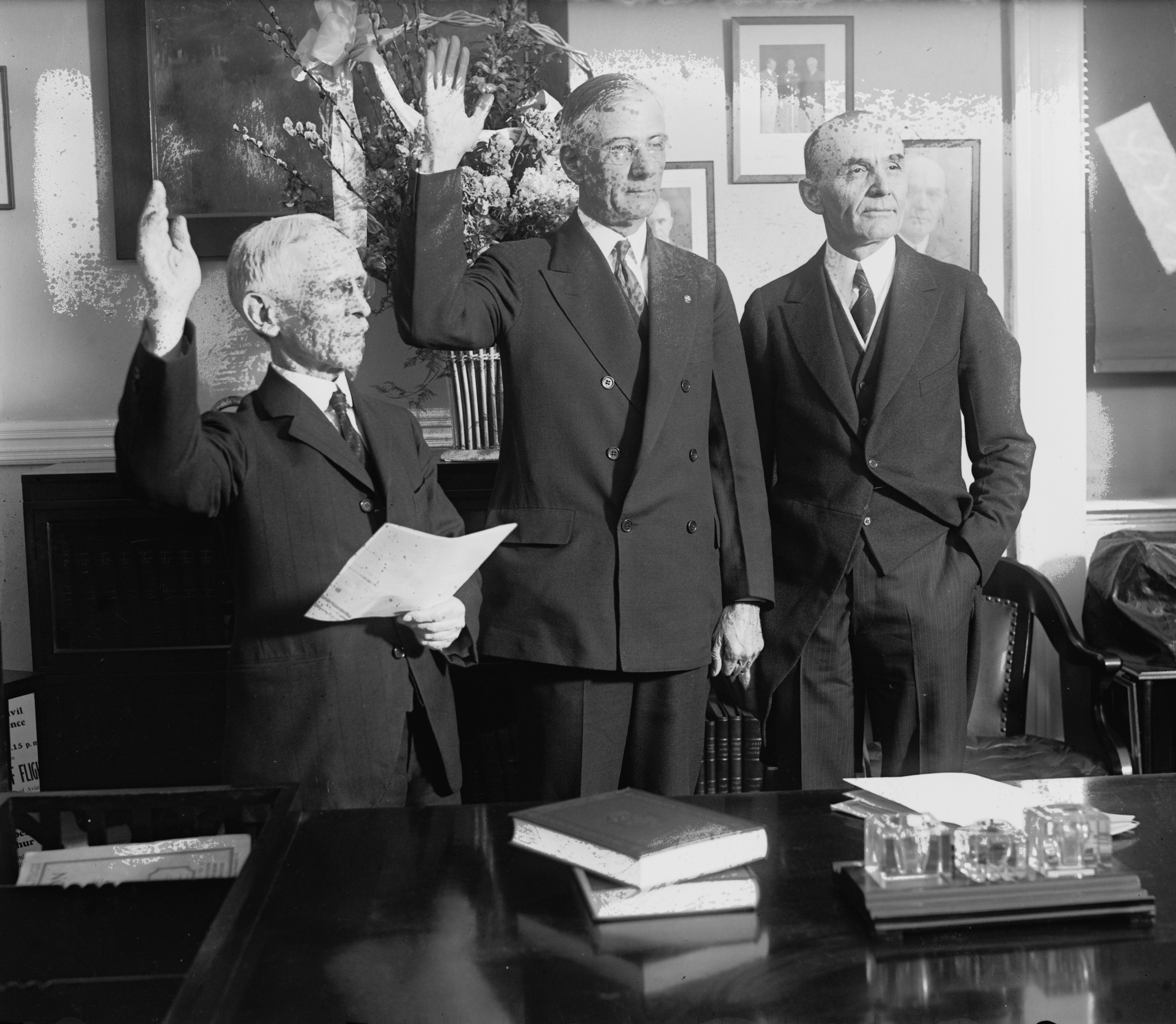 Swearing in of Arthur M. Hyde, 2/6/29